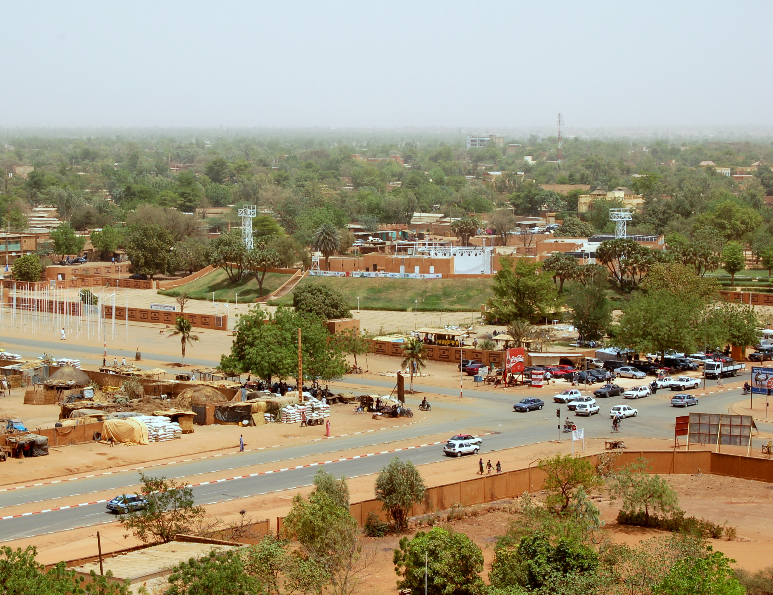 View from the Grande Mosque in Niamey. Across the road are market stalls, an outdoor amphitheatre (complete with lighting rigs), and a view across the city.